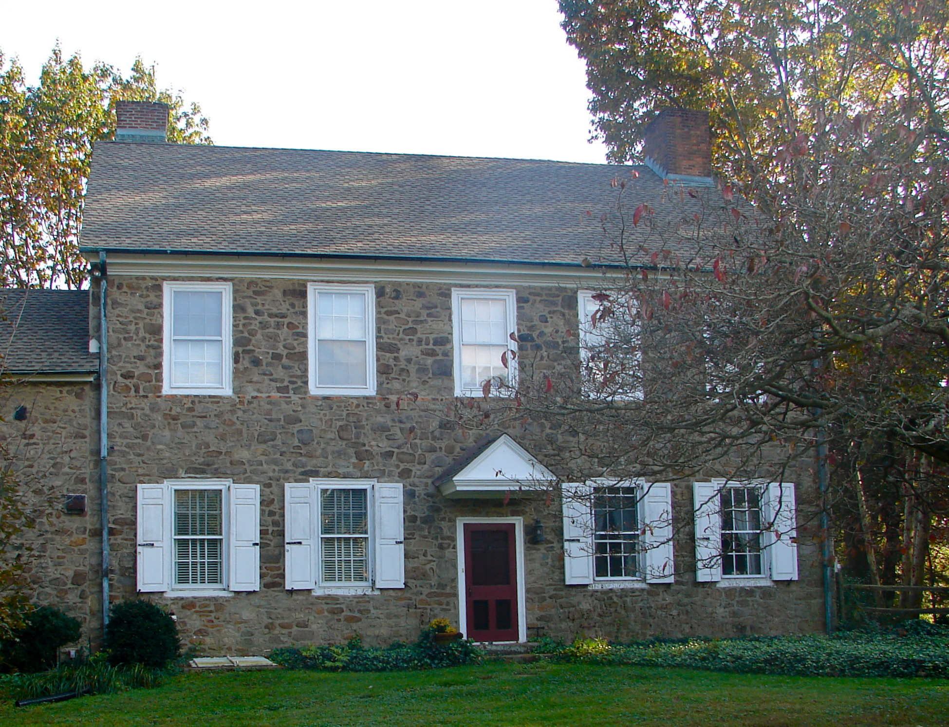 Quaker Manor House on the NRHP since November 21, 1976. Built 1730. Located at 1165 Pinetown Road (aka Commerce Road), Fort Washington, Montgomery County, Pennsylvania. Continental troops stayed here or used it as a hospital around the time of the Battle of Whitemarsh.